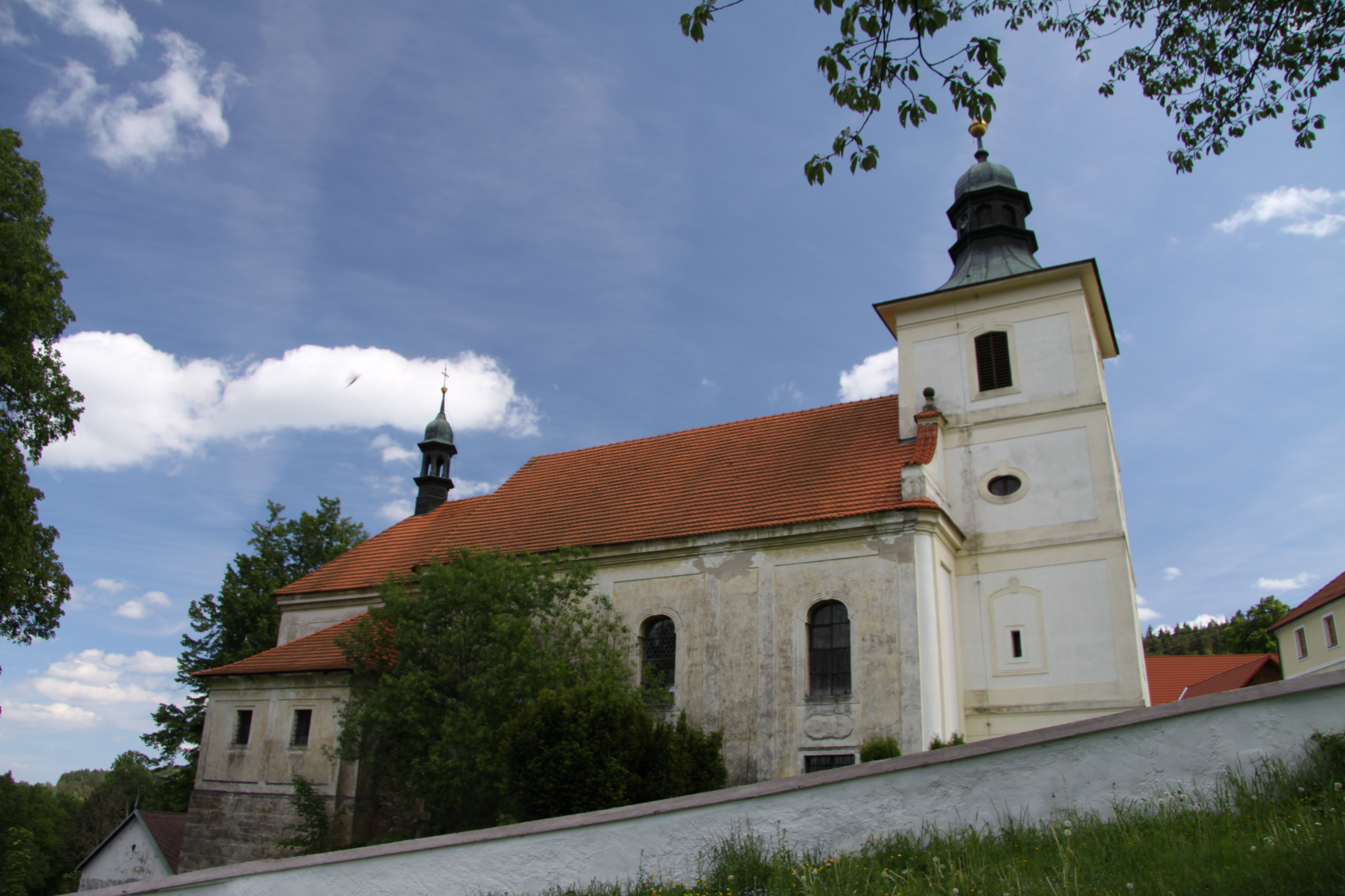 Church of Saints Philip and James in Frantoly village, part of Mičovice, Prachatice District, Czech Republic - Google Maps - Google Earth